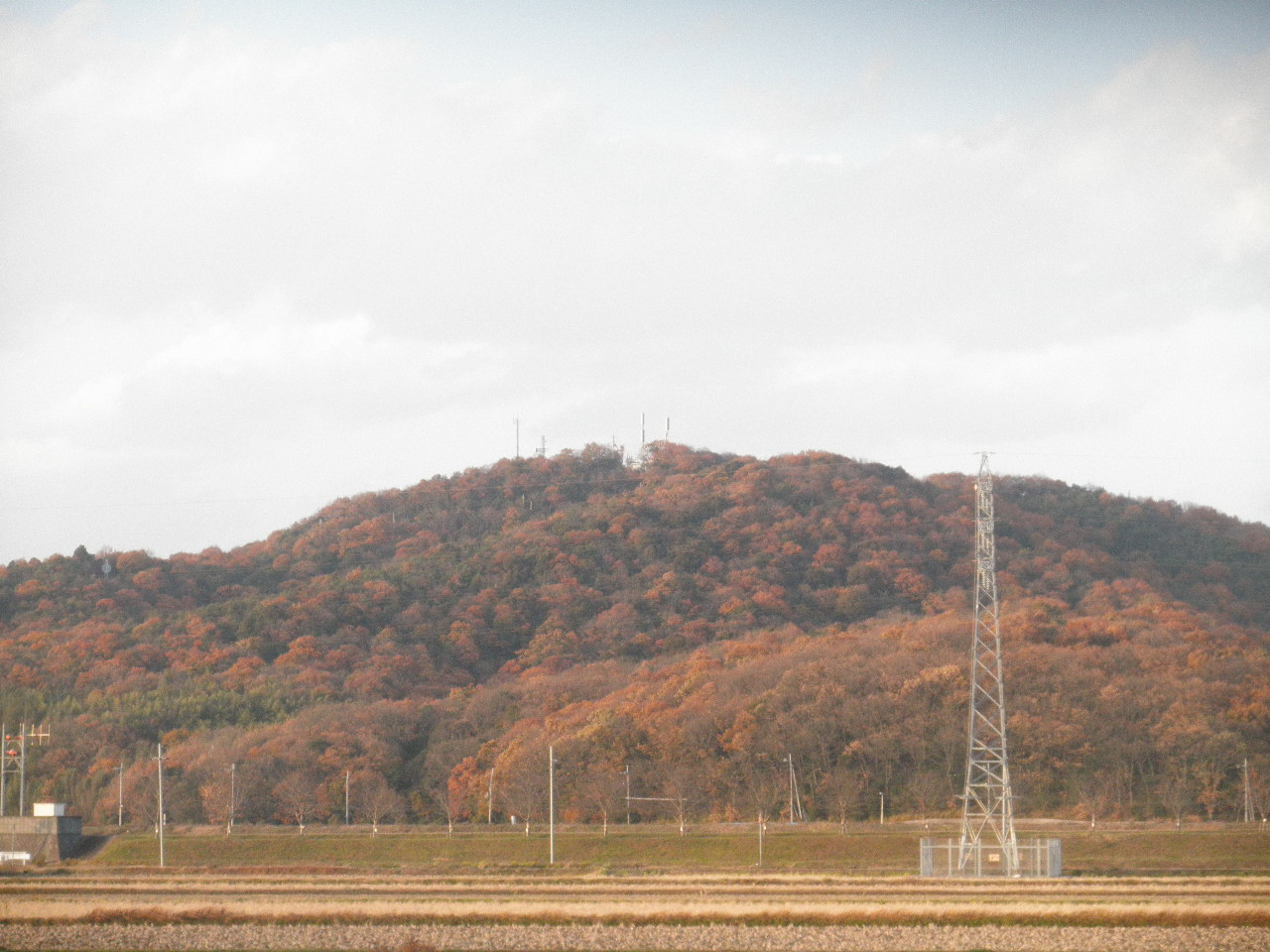 M.t Shoboji